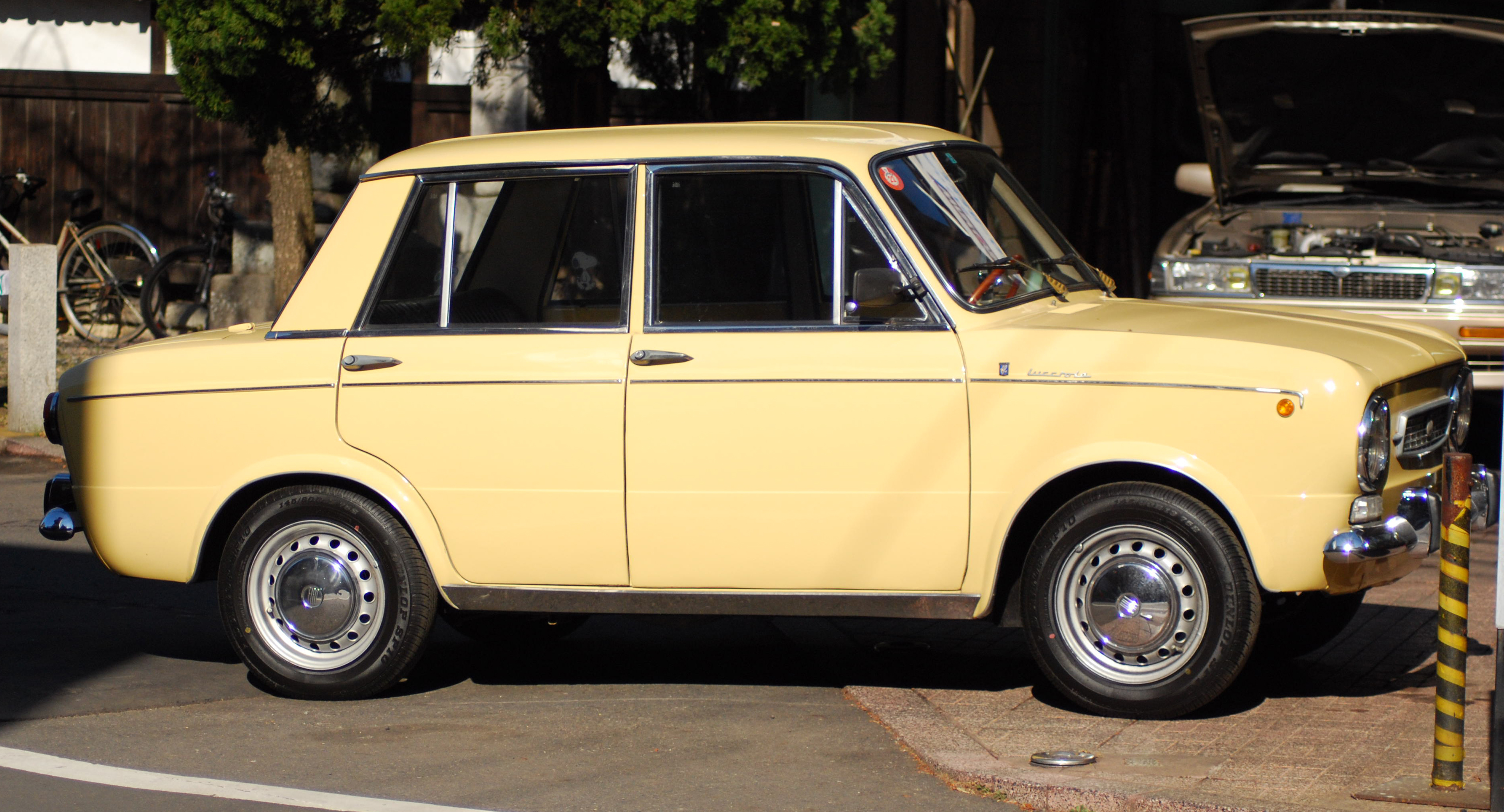 Fiat 850 "Lucciola" 4-door, special body by Francis Lombardi, photographed in Tokyo